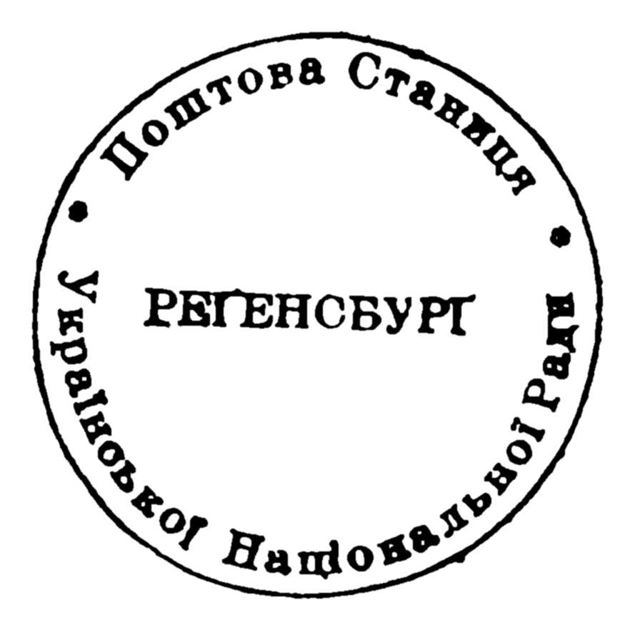 Postmark of the Ukrainian National Council used at its first session in 1948.